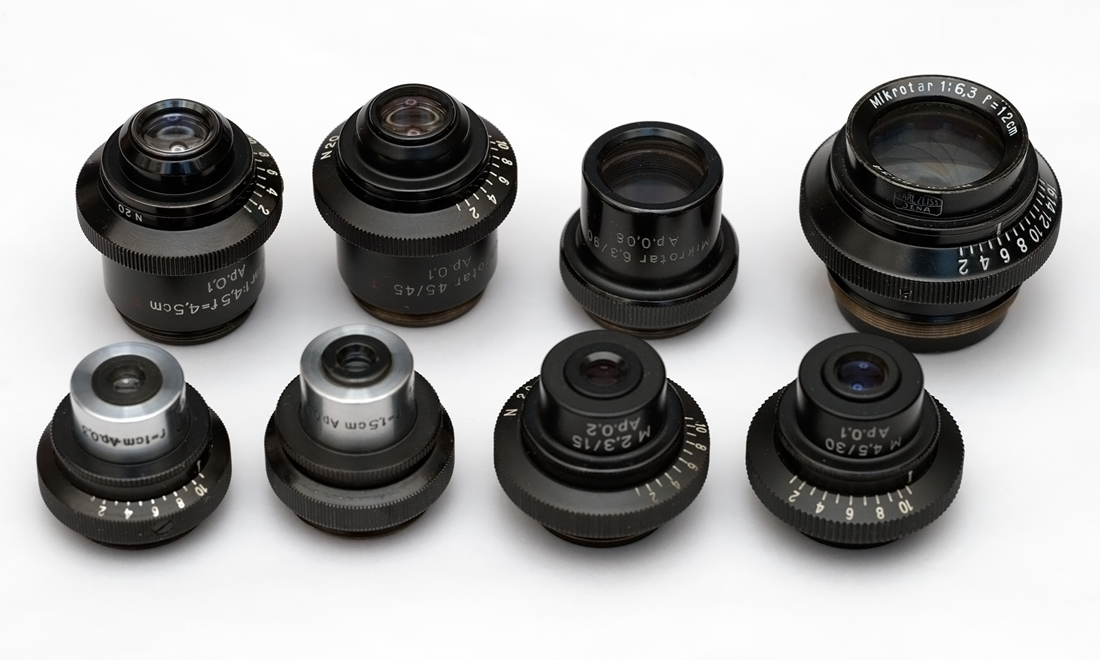 Carl Zeiss Jena Mikrotar Lenses